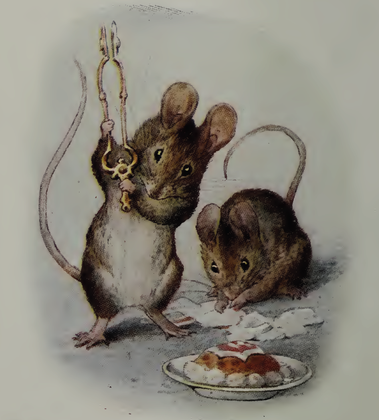 Frontispiece from The Tale of Two Bad Mice, showing Tom Thumb smashing the plaster food while his wife Hunca Munca watches.